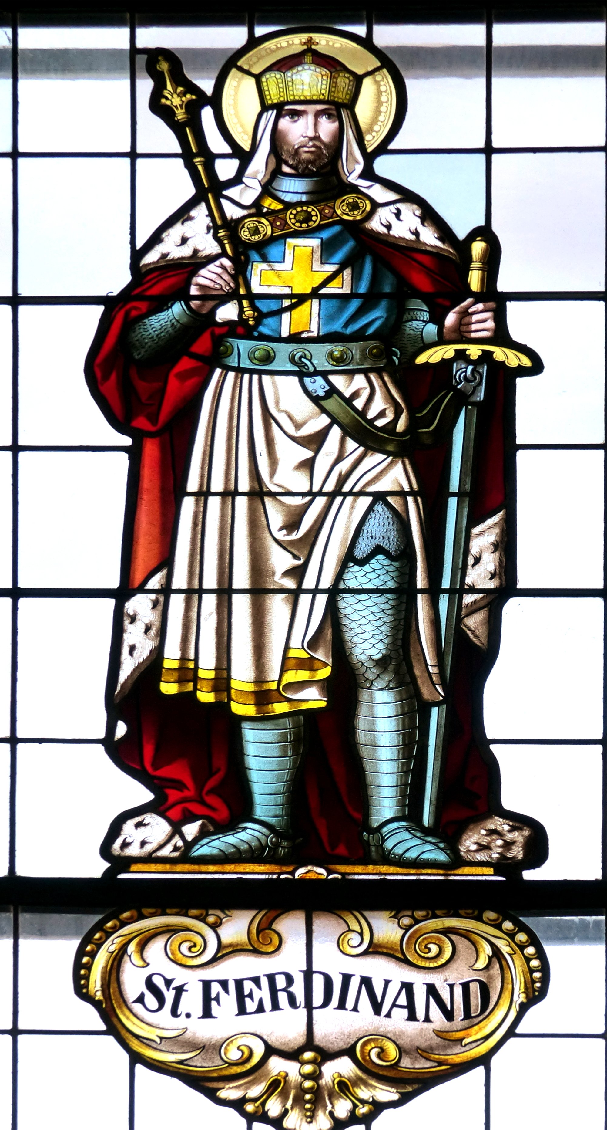 Dobersberg ( Lower Austria ). Saint Lambert parish church - Stained glass window ( 1900s ) showing Saint Ferdinand